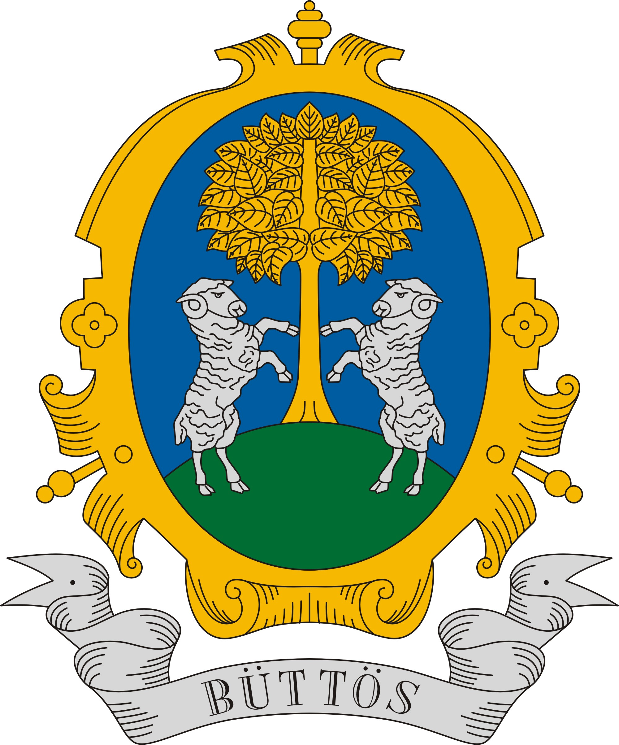 Coat of arms of Büttös, Hungary